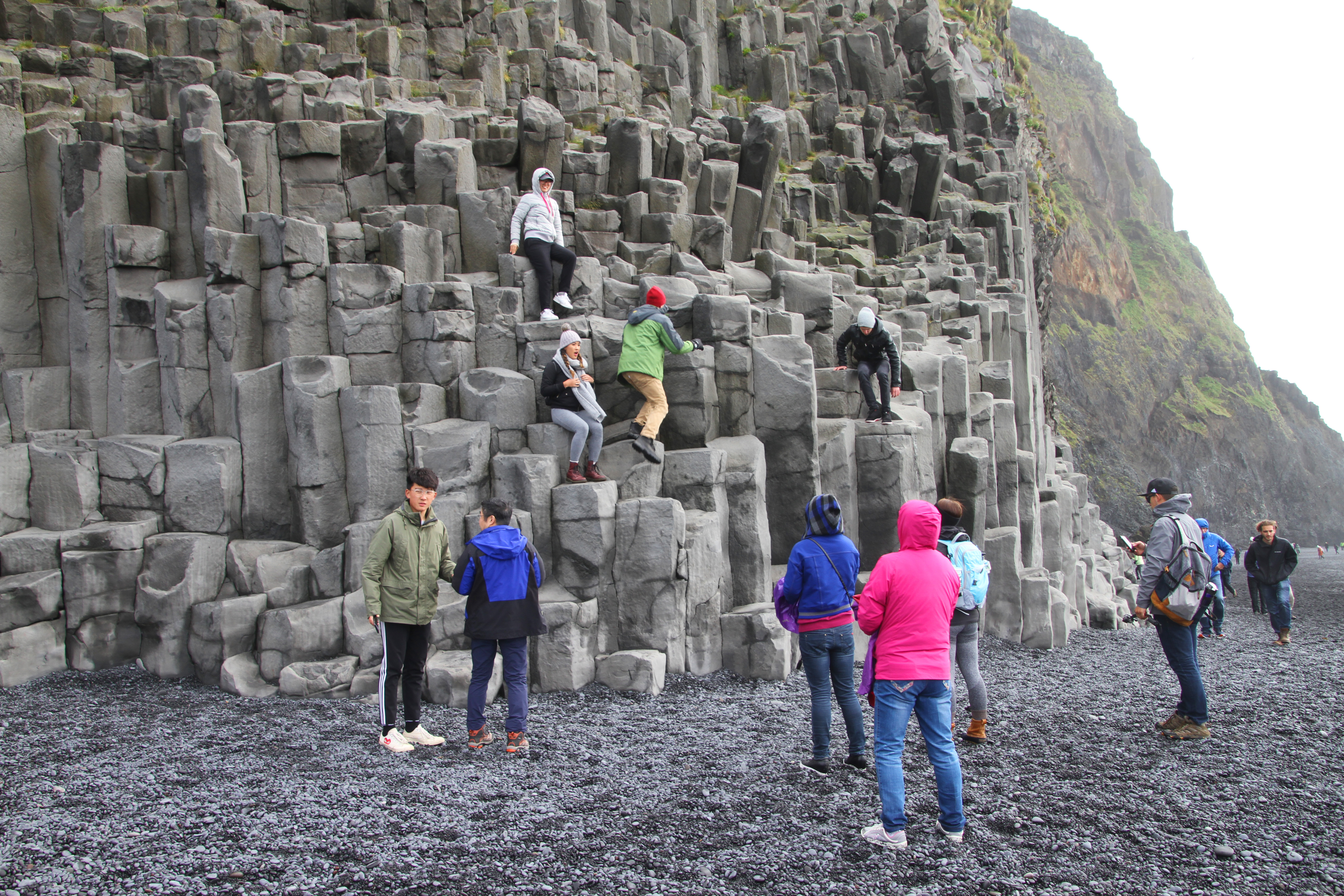 Columnar basalts at Reynisfjara